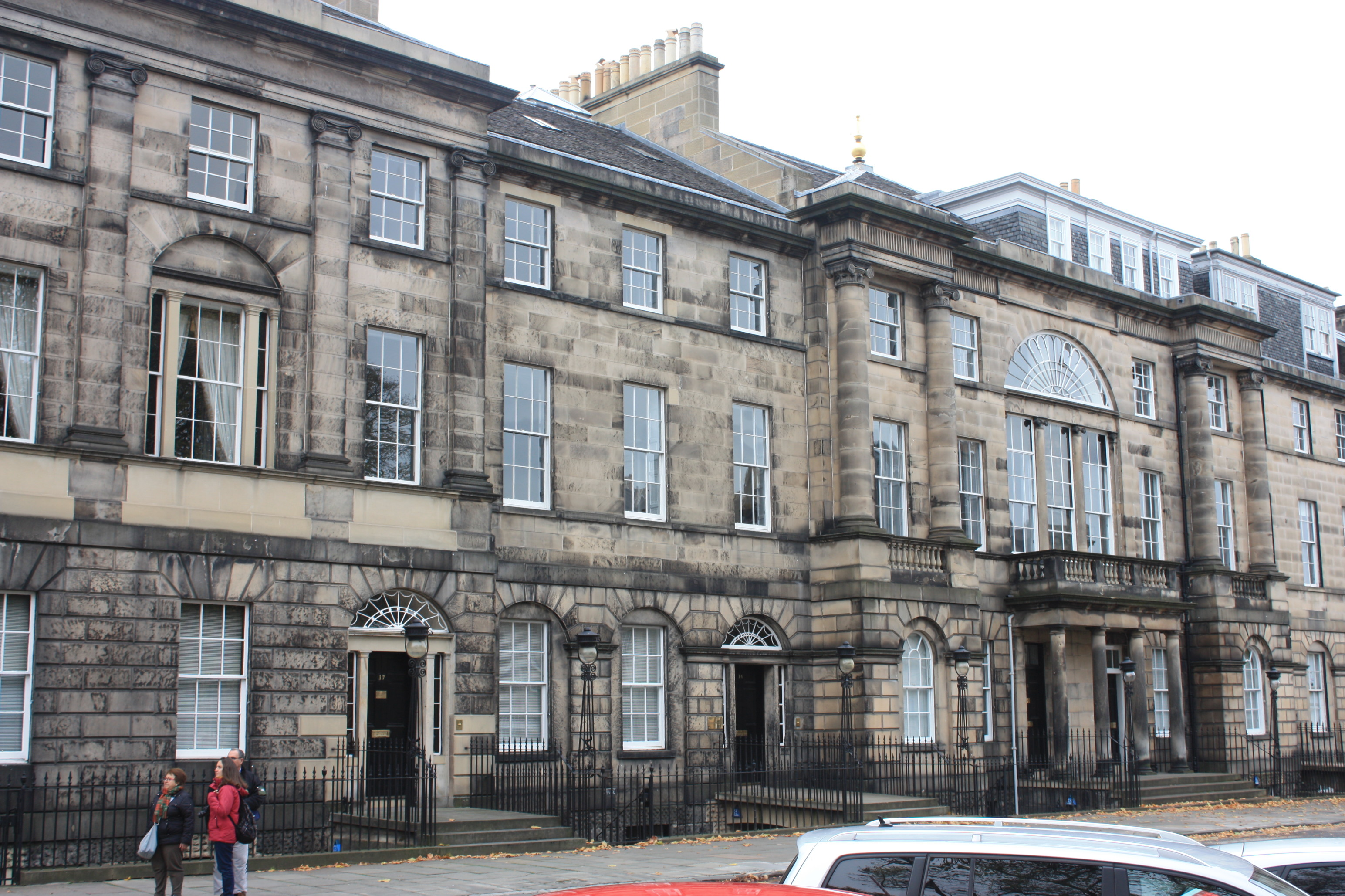 15,16,17 Charlotte Square, Edinburgh